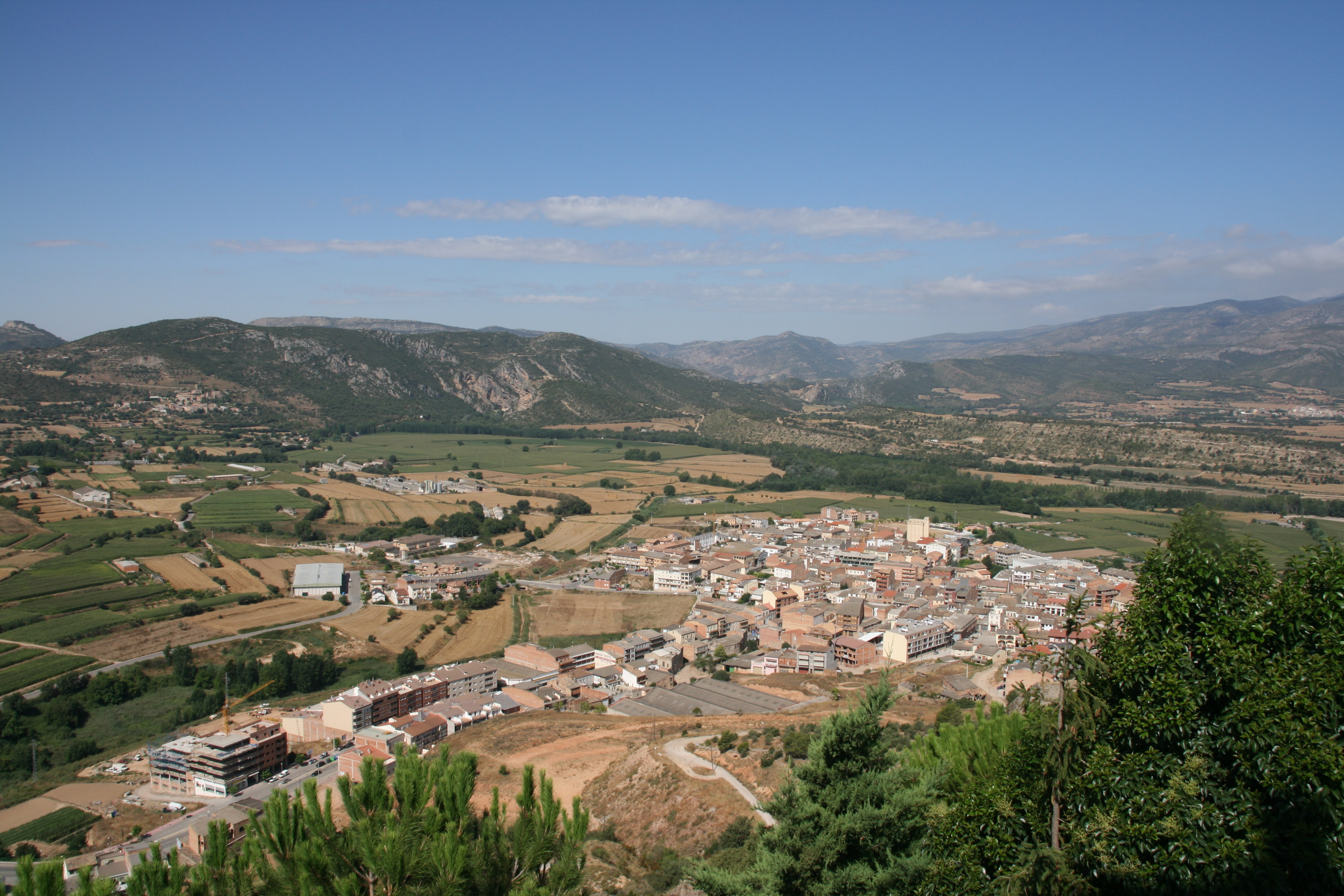 View from the Sacred heart statue at the top of Lo Castellot mountain, in Artesa de Segre